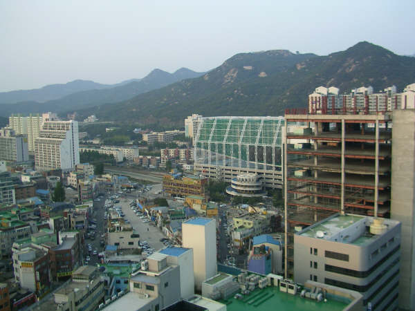 Anyang Station in the evening.